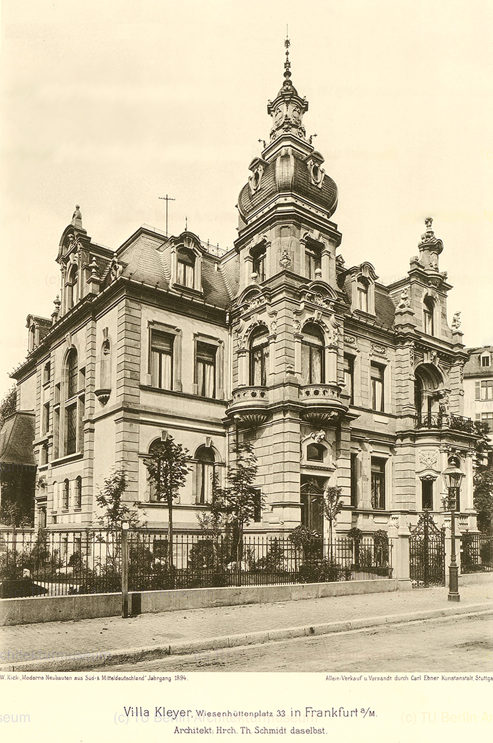 Residential building of industrialist Heinrich Kleyer in Frankfurt-Bahnhofsviertel